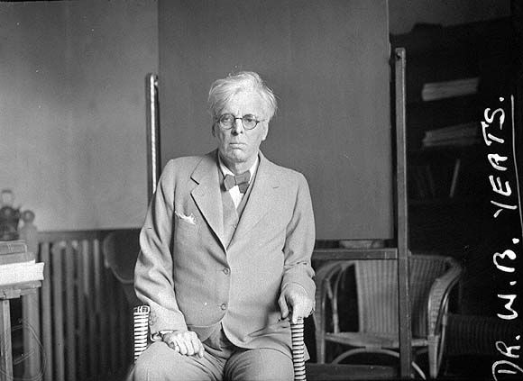 This photo was taken when poet William Butler Yeats was 58. We have an ongoing exhibition celebrating the Life and Works of William Butler Yeats here in Dublin, but for those of you who are far, far away, it's also online... Date: 1923 NLI Ref.: INDH3464